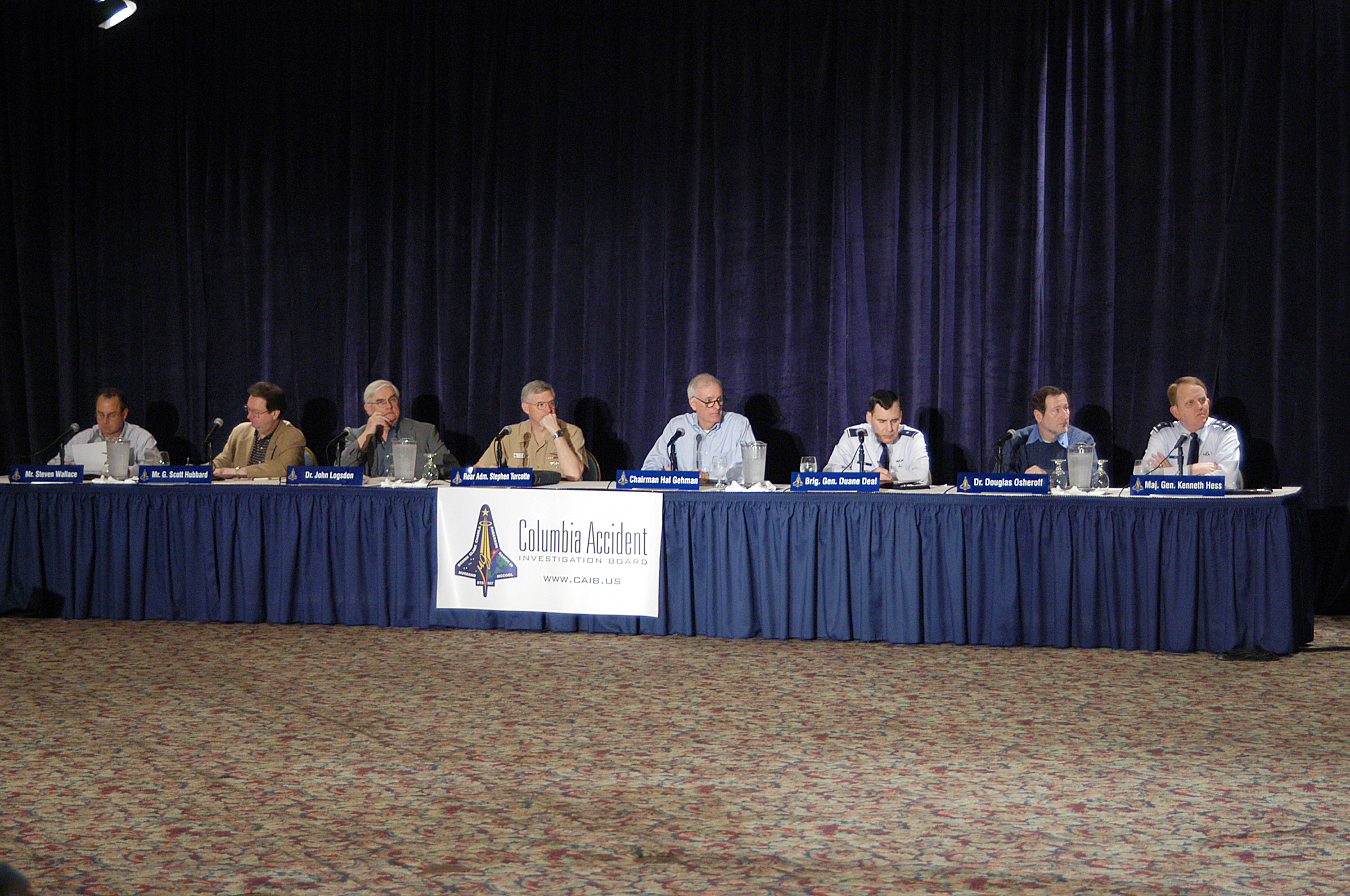 The Columbia Accident Investigation Board gathers for a secondday for its third public hearing, held in Cape Canaveral, Florida. The CAIB was set up to examine STS-107 and analyze exploratory tests. Navy Admiral Harold W. "Hal" Gehman Jr. wasdesignated as the Chairman of the Board. From left to right inthis photo sit Board Members Steven B. Wallace, Scott Hubbard,Dr. John Logsdon, Rear Admiral Stephen Turcotte, Hal Gehman, General Duane Deal, Dr. Douglas Osheroff, and Maj. GeneralKenneth W. Hess. Not shown are Maj. General John Barry, Dr.James N. Hallock, Roger Tetrault, Dr. Sheila Widnall, and Dr.Sally Ride.For more information on STS-107, please see GRIN Columbia General Explanation